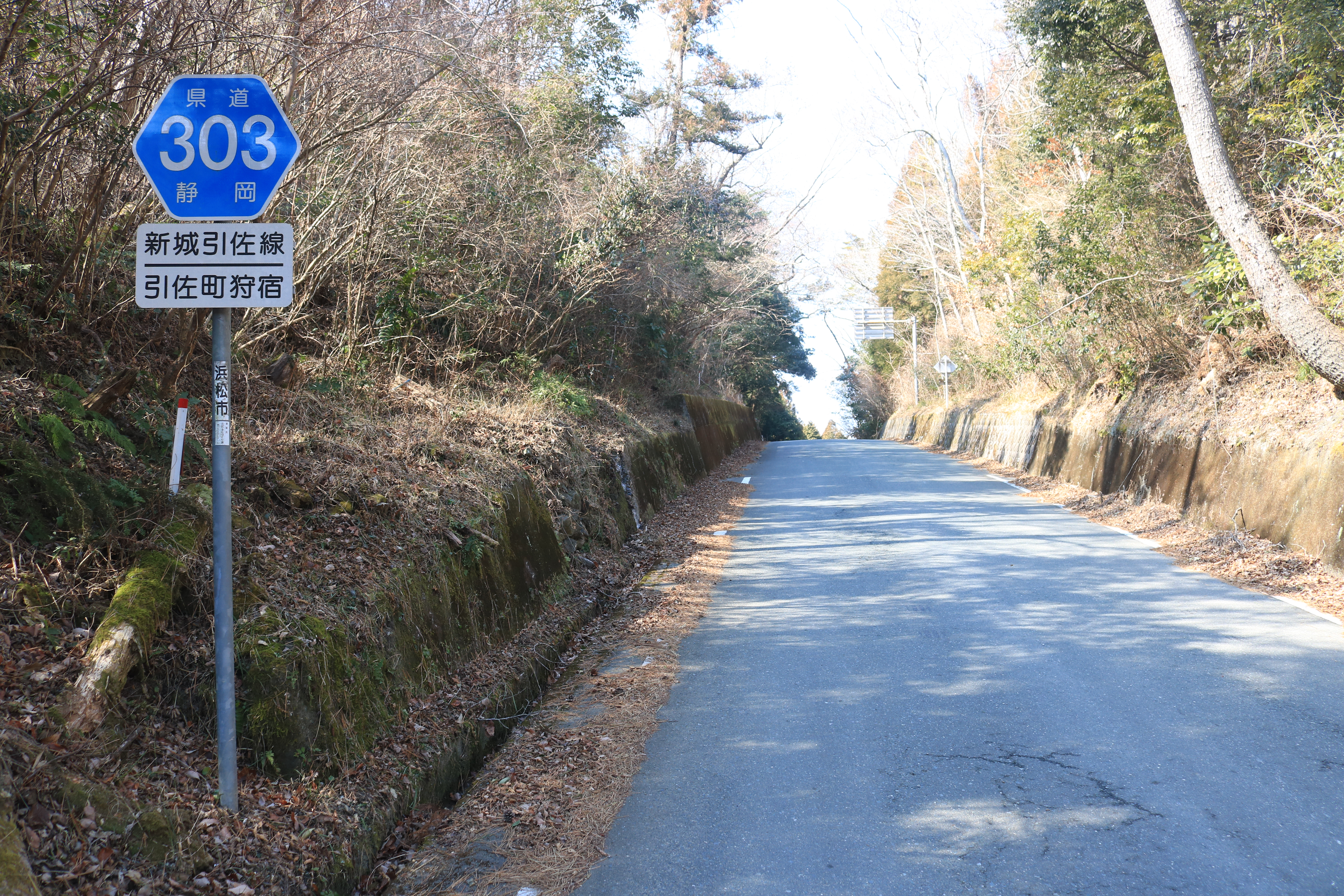 Zinza Pass on Aichi Prefectural Road Route 392 and Shizuoka Prefectural Road Route 303 in Karishuku, Inasacho, Kita-ku, Hamamatsu, Shizuoka Prefecture, Japan. Canon EOS Kiss X8i